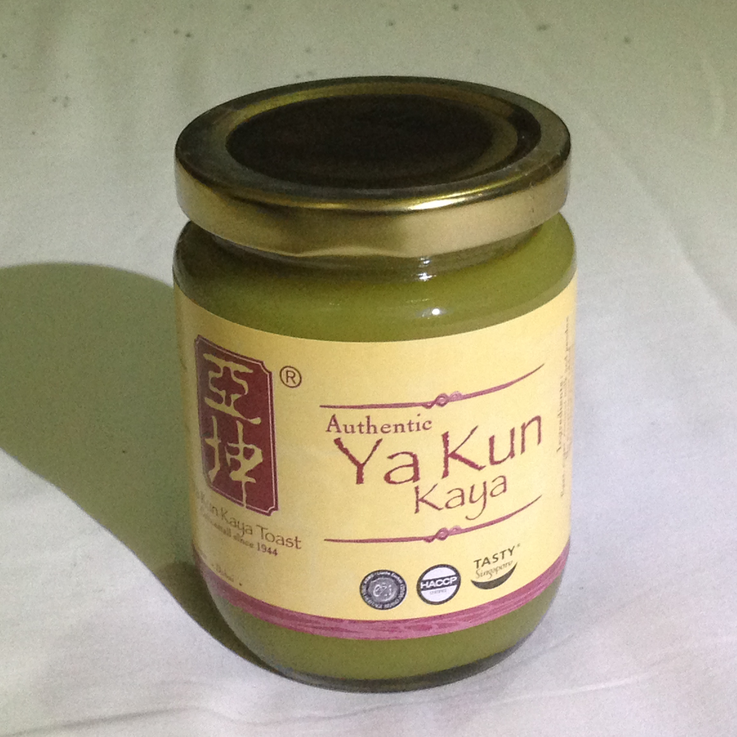 Kaya spread from Singapore